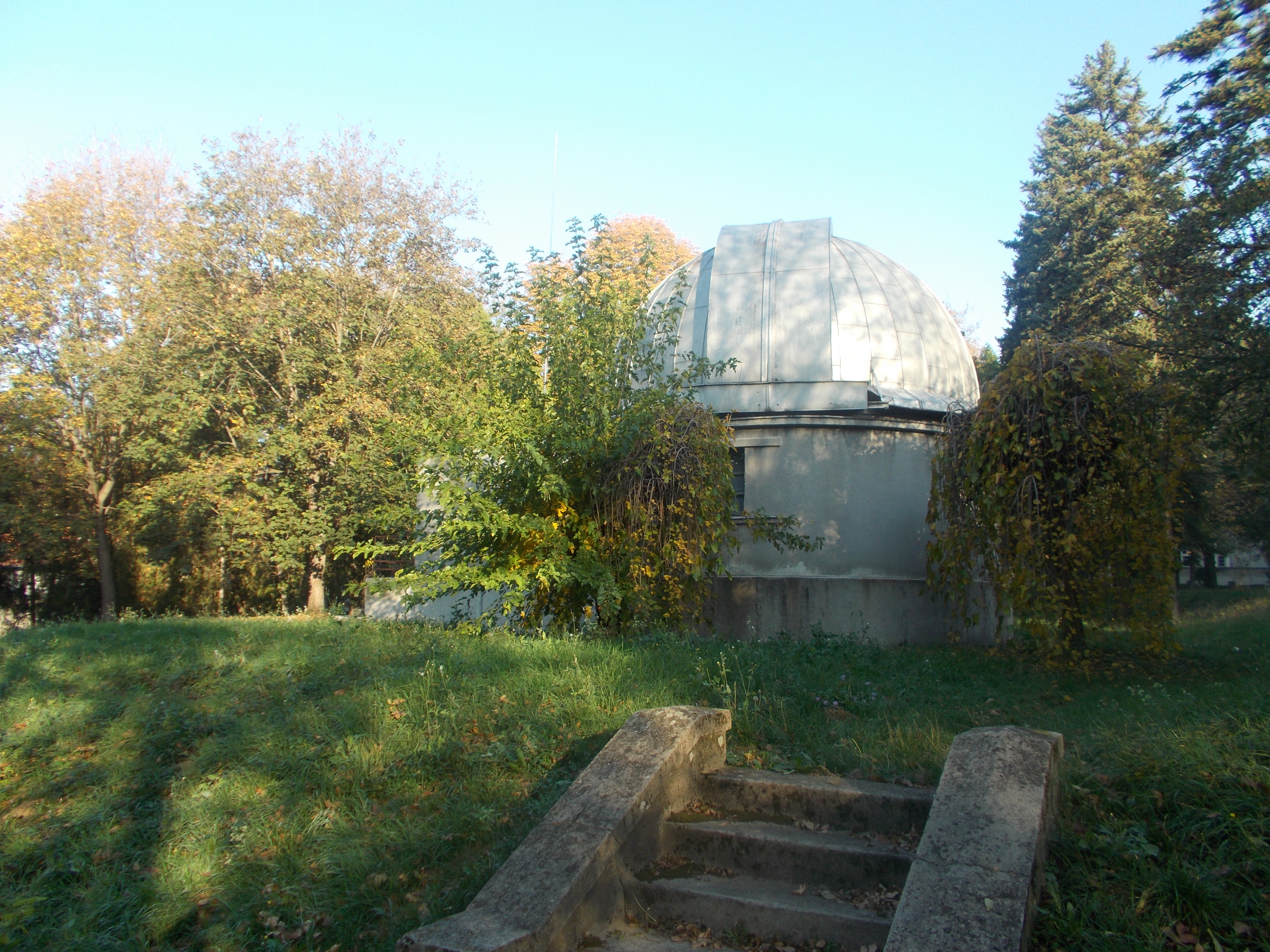 Former pavilion of small refractor, built in 1932. Now is Solar Spectrograph dome. Solar Spectrograph (monochrom.) Littrow type, 9000 mm / 100 000 developped by attaching to the Zeiss equatorial 200 / 3020 mm two astrocameras Tessar and Petzval 100/800 mm.